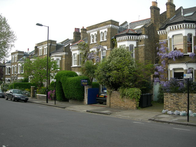 Sibella Road SW4. There are several houses in this immediate area with this distinctive design.